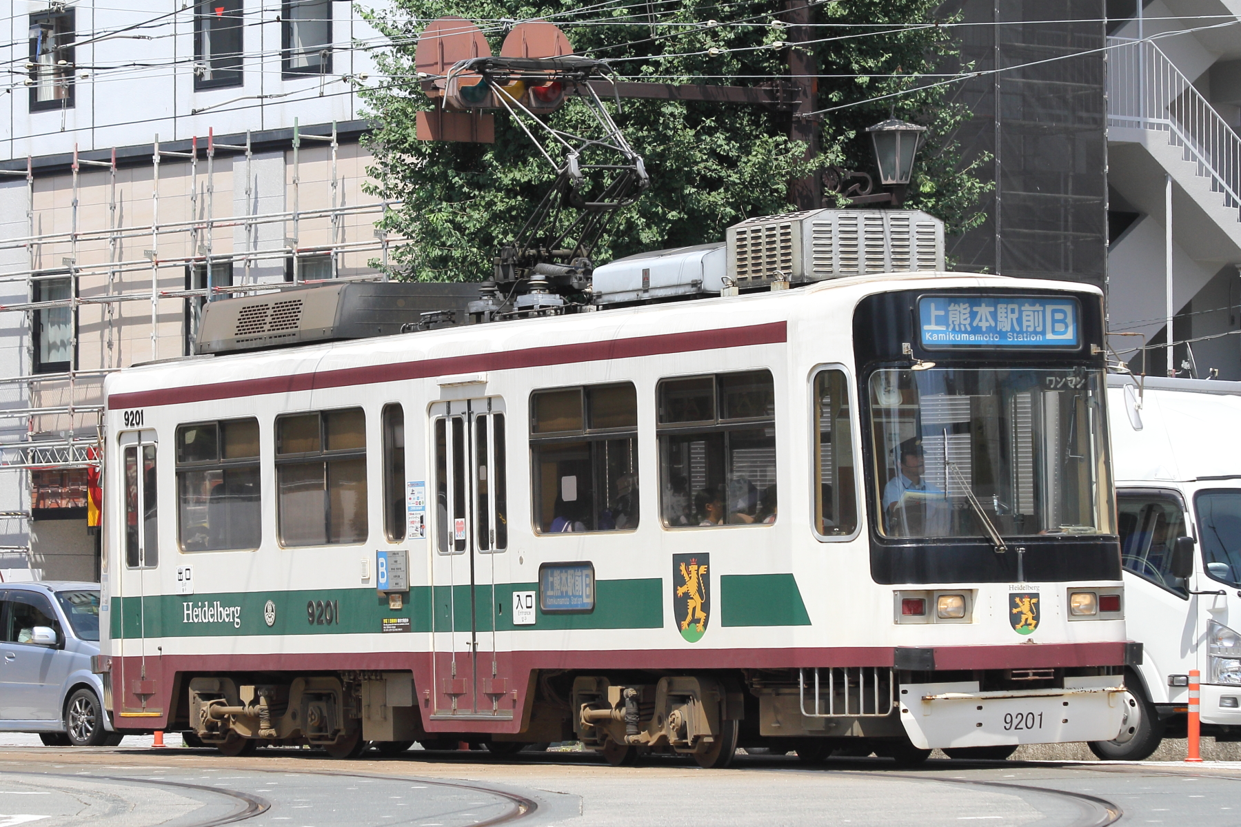 Kumamoto City tram No.9201